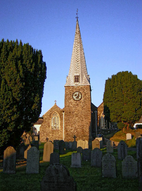 St James' parish church, Swimbridge, Devon, seen from the west